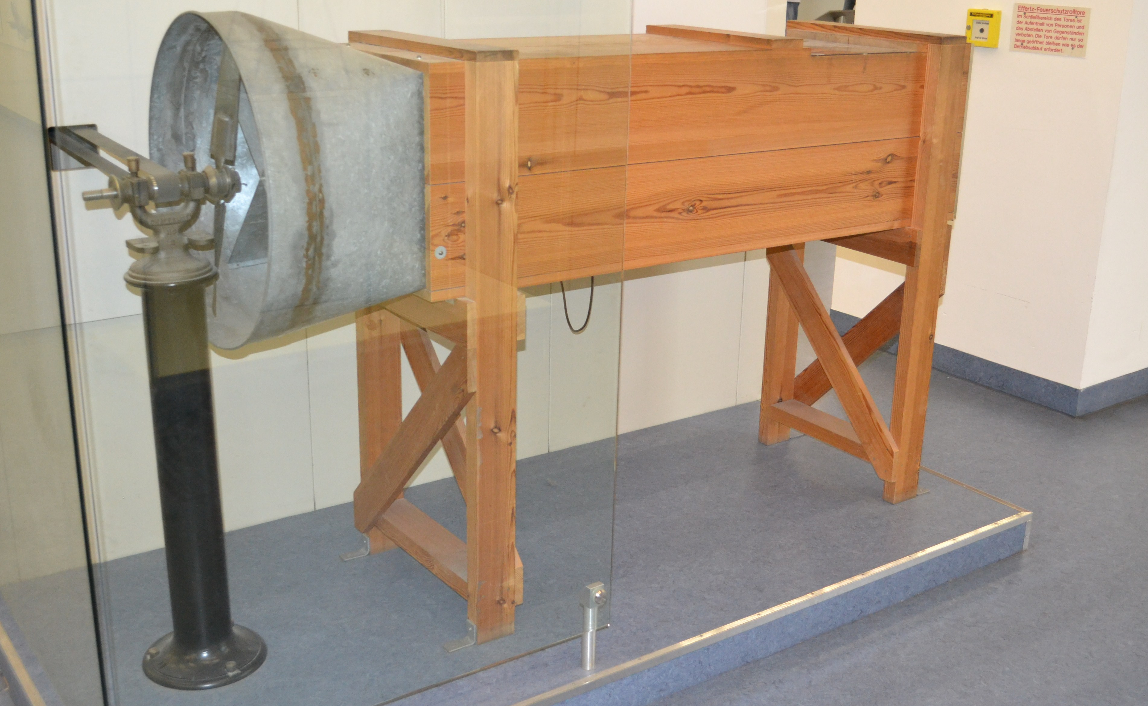 Replica of the wind tunnel employed by Wilbur and Orville Wright between October 1901 and 1903 to test model wing surfaces. Deutsches Museum, Munich.